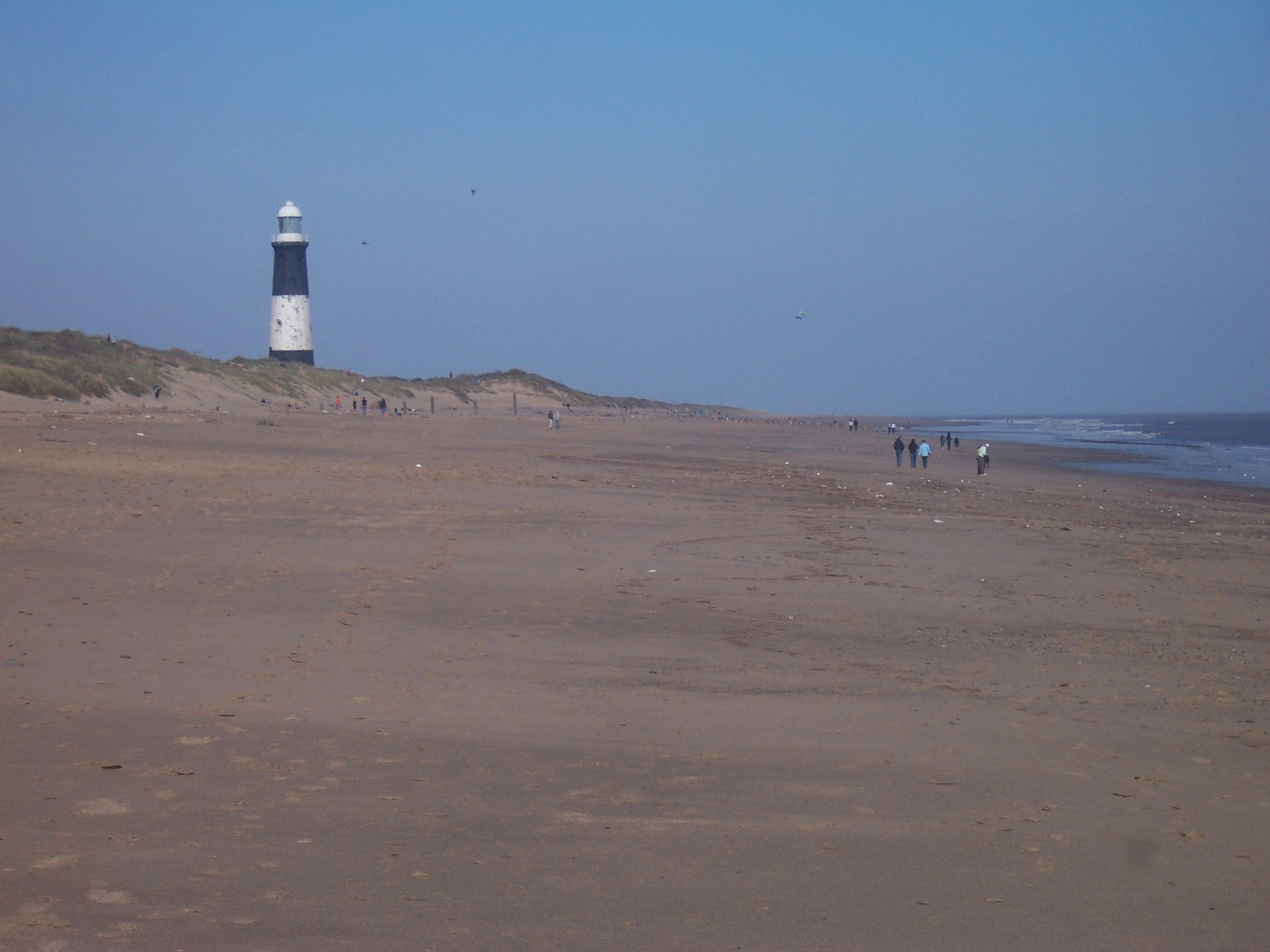 Spurn Point, East Riding of Yorkshire, England, with its old lighthouse in the distance.This photo depicts the beach on the eastern coast of Spurn Point (seaside). The disused lighthouse still marks the horizon.